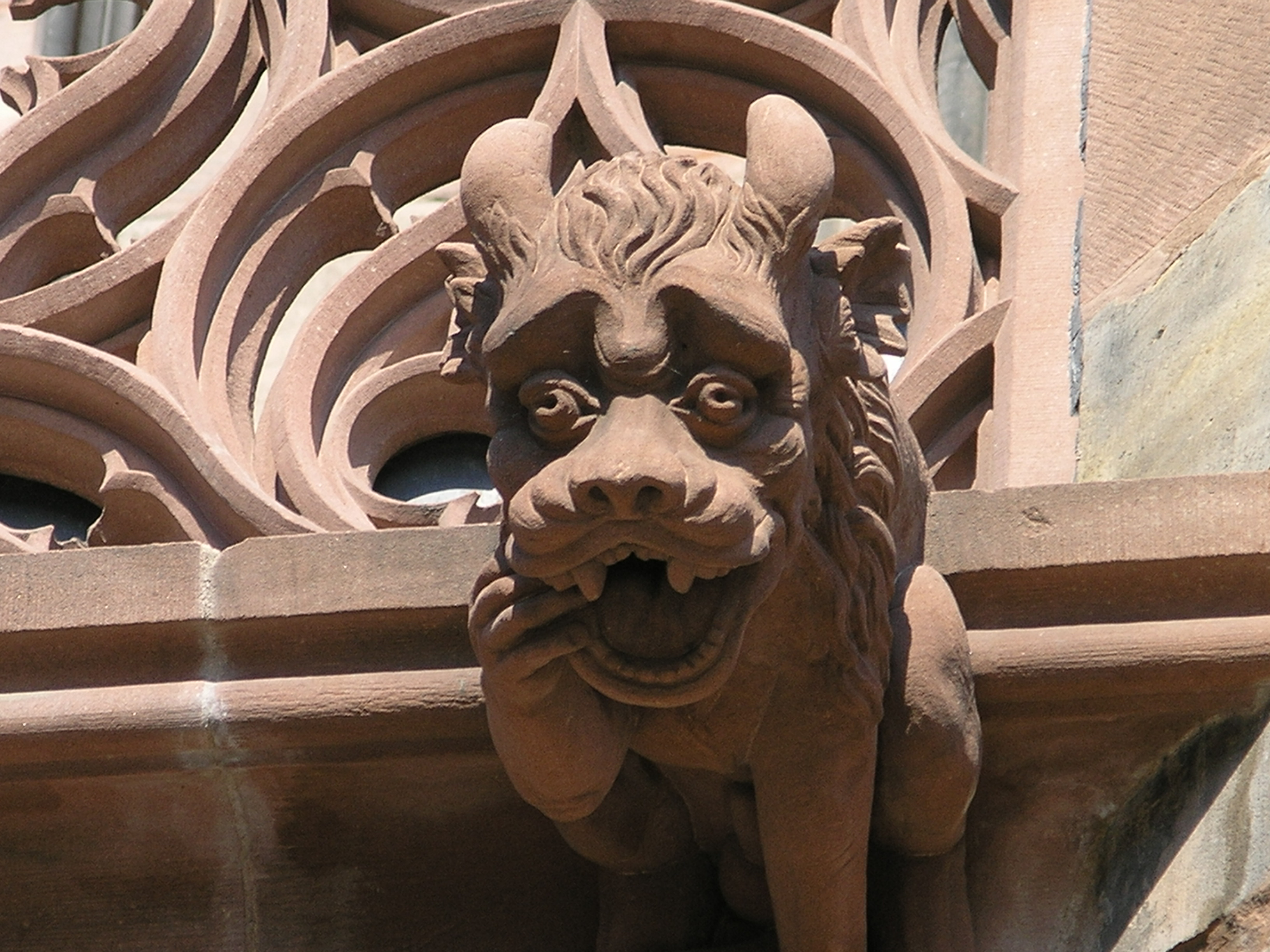 Detail on the cathedral of Strasbourg